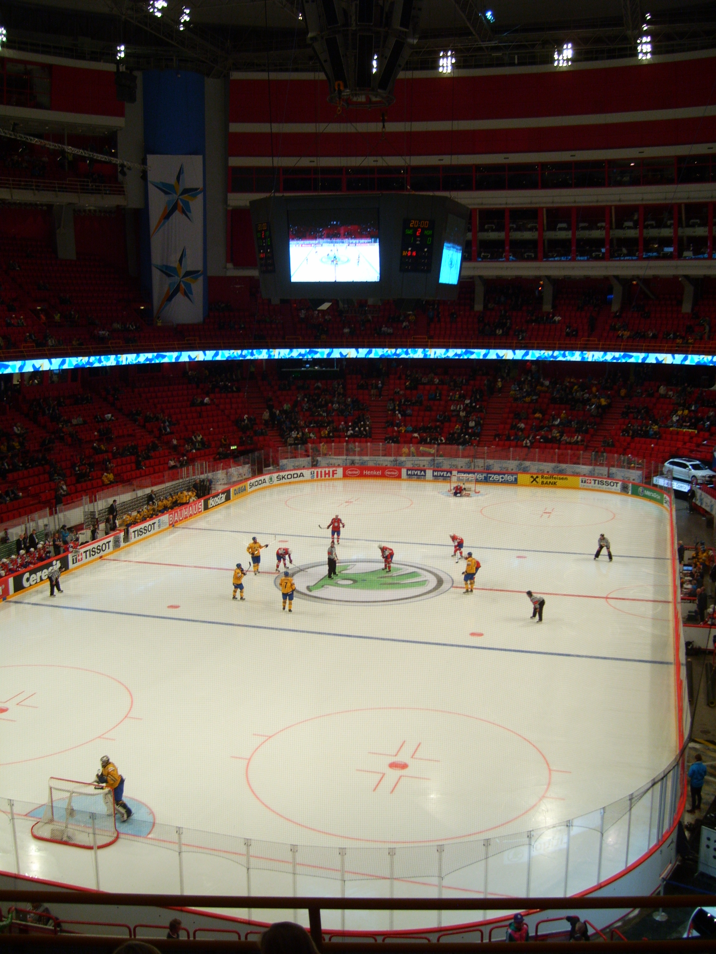 Ice hockey game between Sweden vs Norge during World Championship in ice hockey.